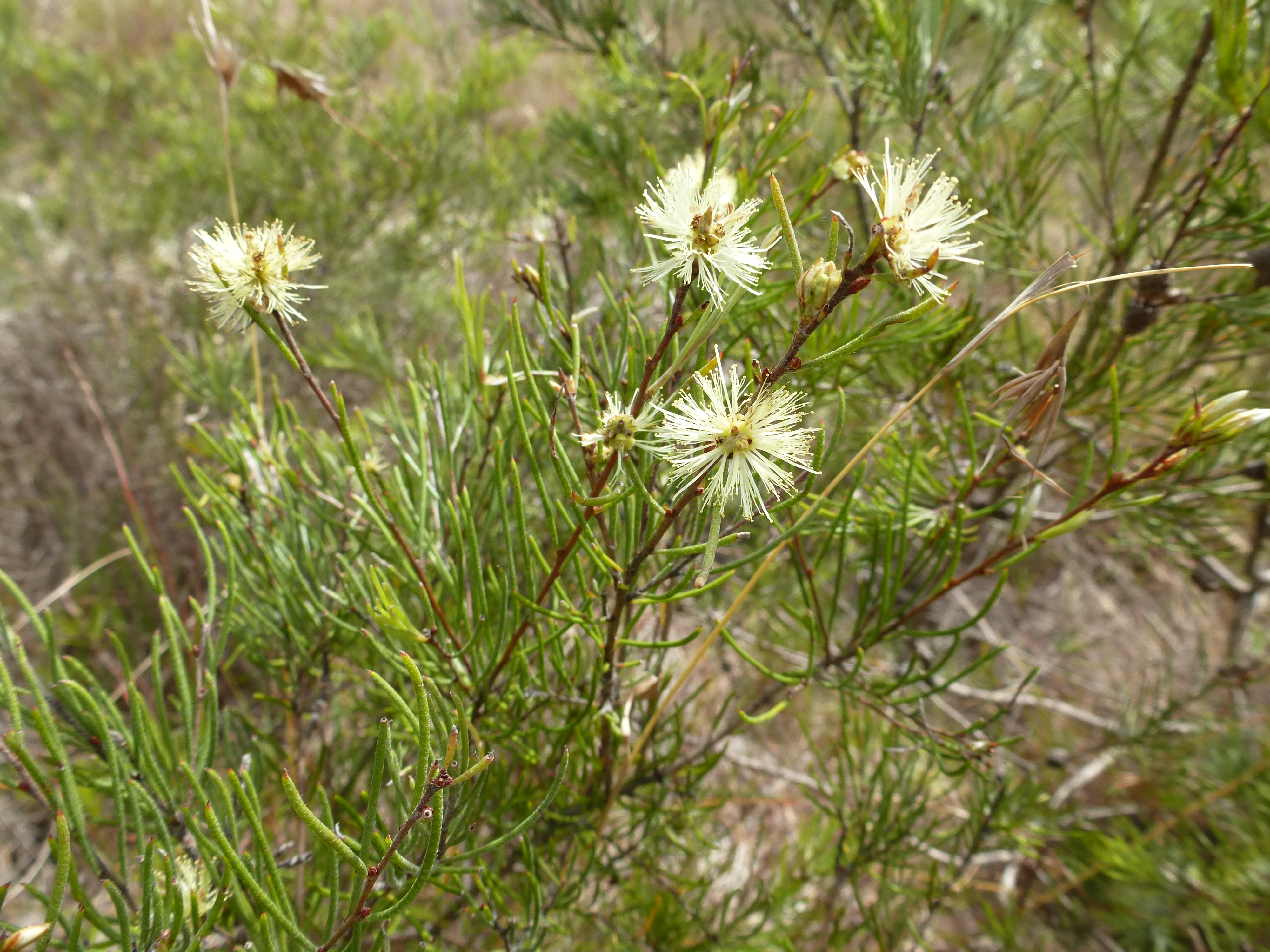 Melaleuca borealis flowers near Ravenshoe